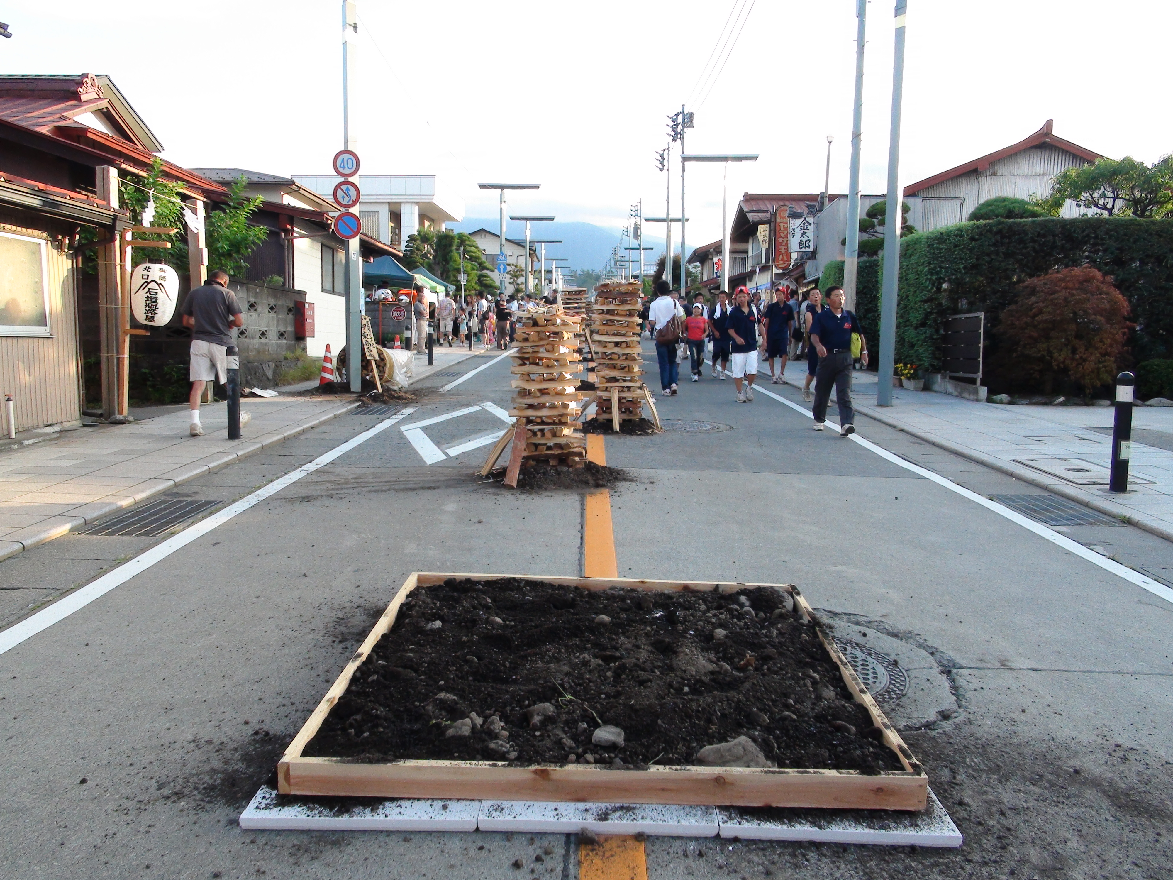 Yoshida Fire Festival to be prepared on the road